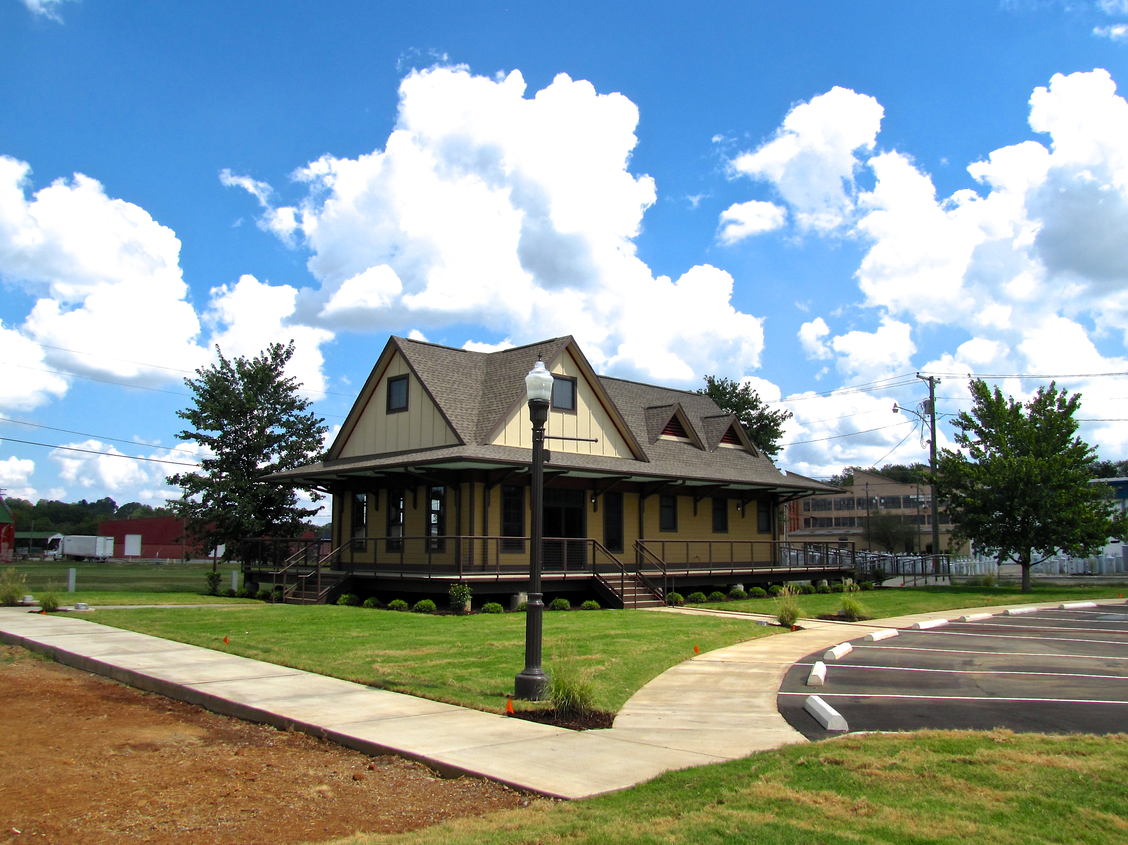 Reconstructed railroad depot in Sweetwater, Tennessee, United States. The depot serves as a visitor center.